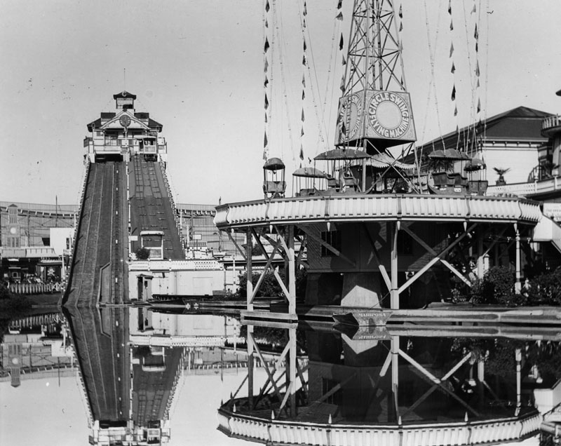 The Chutes amusement park located in the Richmond district of San Francisco on 10th and 11th Ave. near D St. The Circle Swing Flying Machine is in the upper right. The ramp for "The Chute" water ride is reflected in the pool at its bottom. A small boat is tied to a post at the side of the pool.